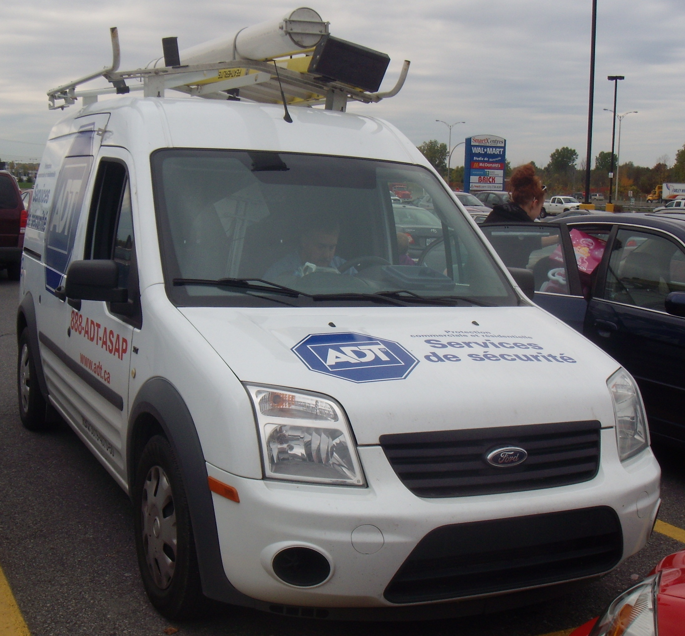 2010-present Ford Transit Connect ADT photographed in Kirkland, Quebec, Canada.